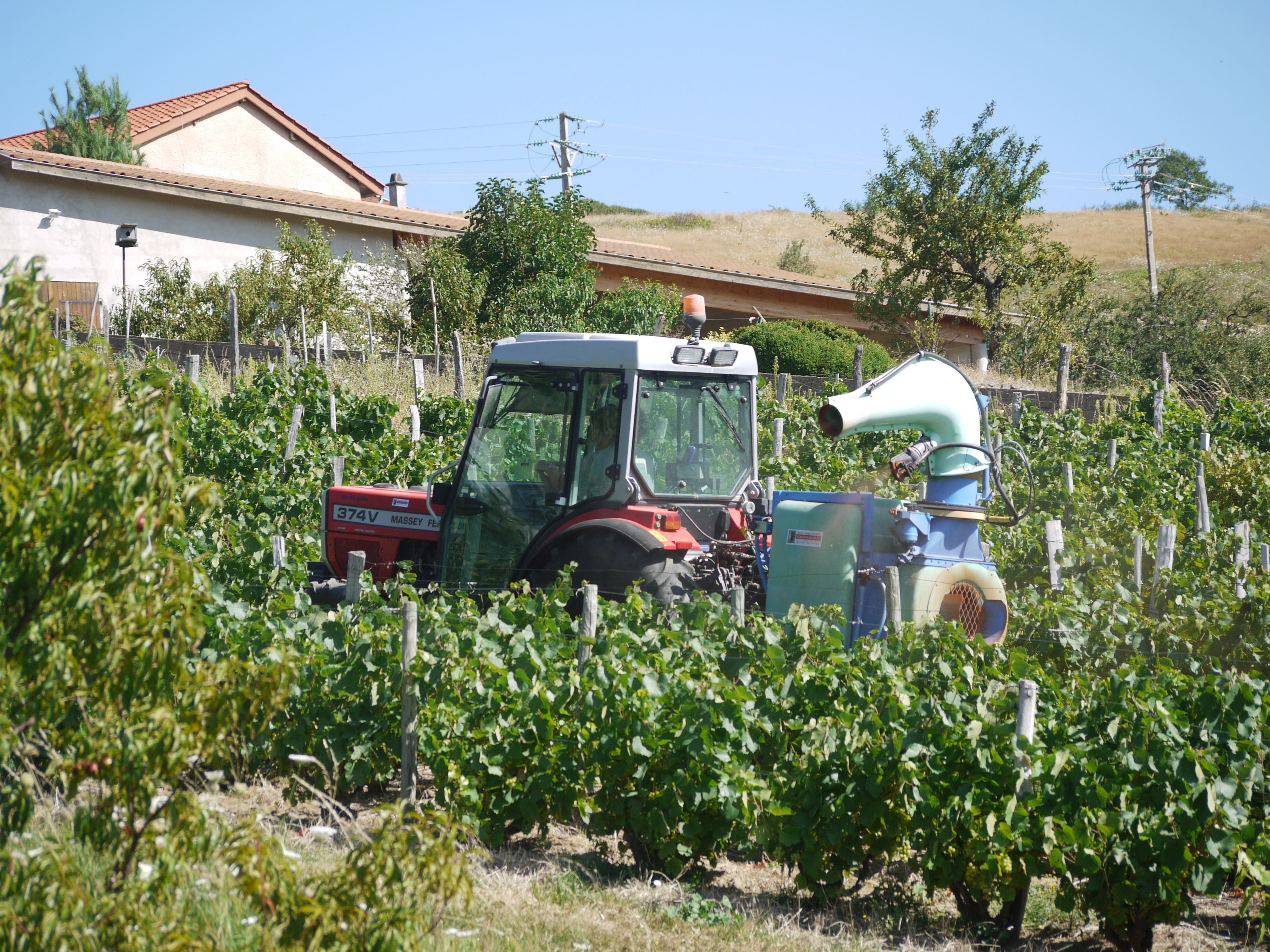 Preventive treatement of the vineyard in the french area of the Beaujolais with the help of a tractor tracting a puverisator. The treatment is probably against the mildew.